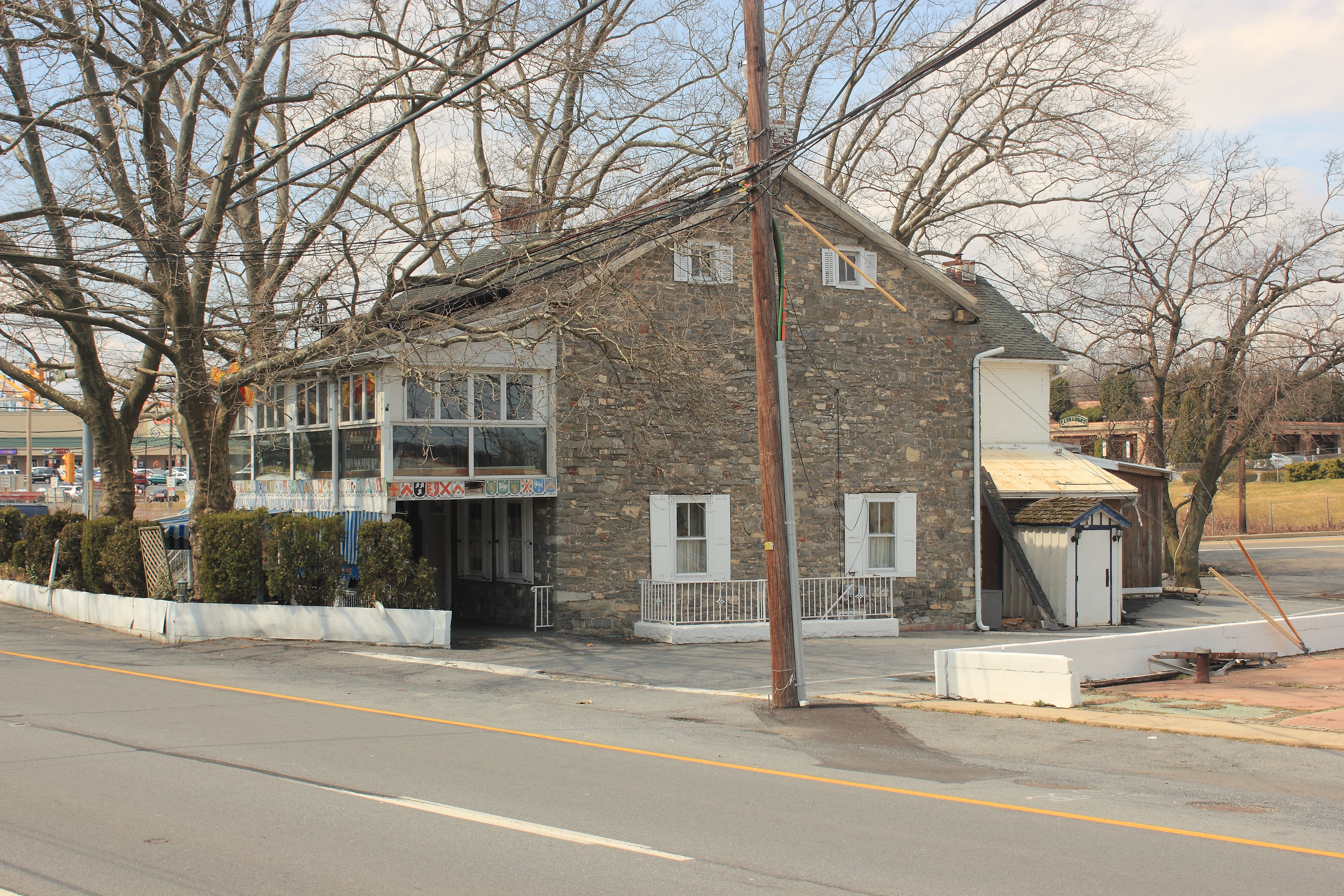 King George Inn at the corners of Hamilton Boulevard and Cedar Crest in Allentown.